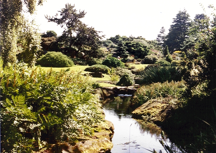 The rock garden at the Royal Botanic Gardens, Edinburgh.